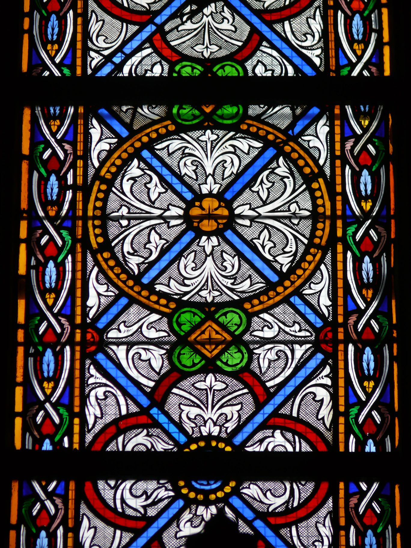 Stained glass windows of Saint-Vincent's church in Marcq-en-Barœul (Nord, France).